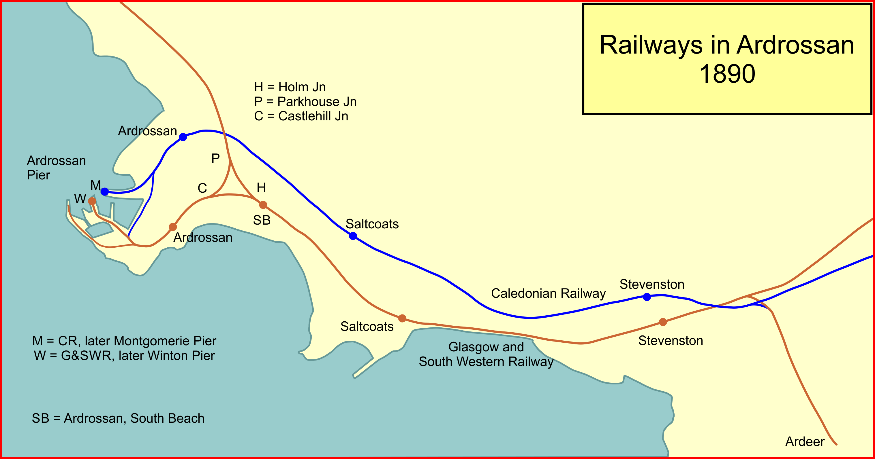 Diagram of railway lines in Ardrossan, Ayrshire, Scotland in 1890